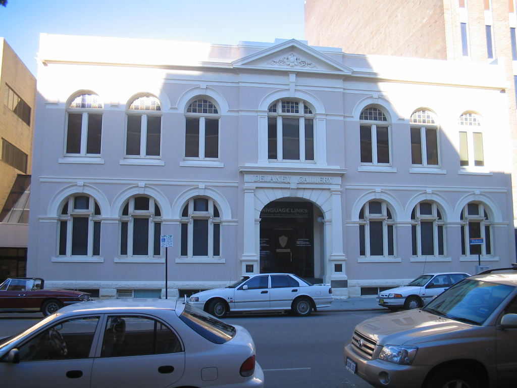 "Perth Trades Hall" building at 74 Beaufort Street, Perth